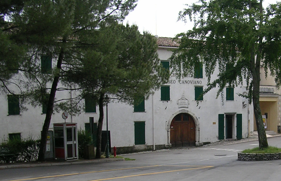 The Museo Canoviano located in the town of Possagno, Italy. Photo by Caracas1830 (2004)